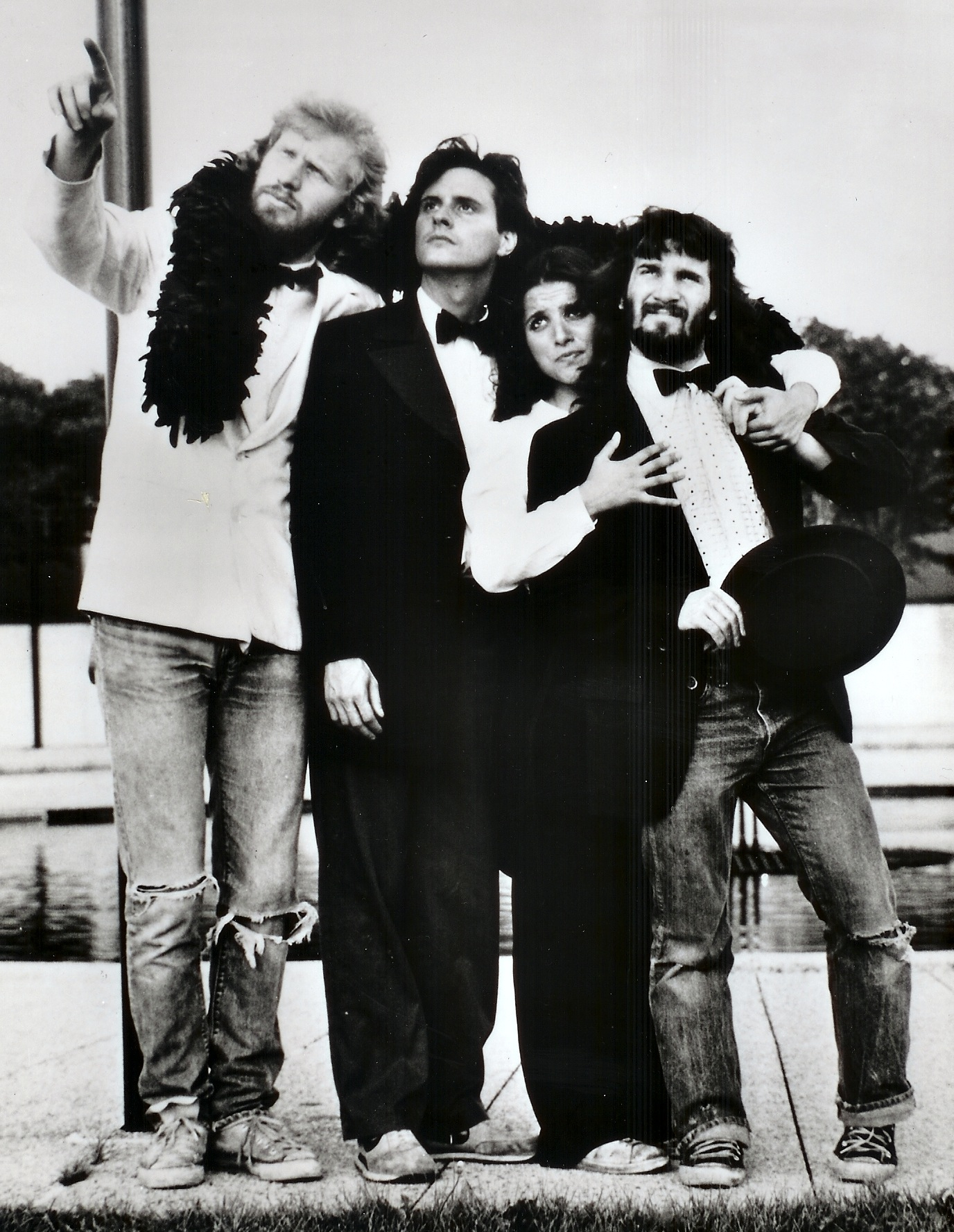 "The Golden 50th Anniversary Jubilee" cast photo: Brad Hall, Gary Kroeger, Julia Louis-Dreyfus and Paul Barrosse